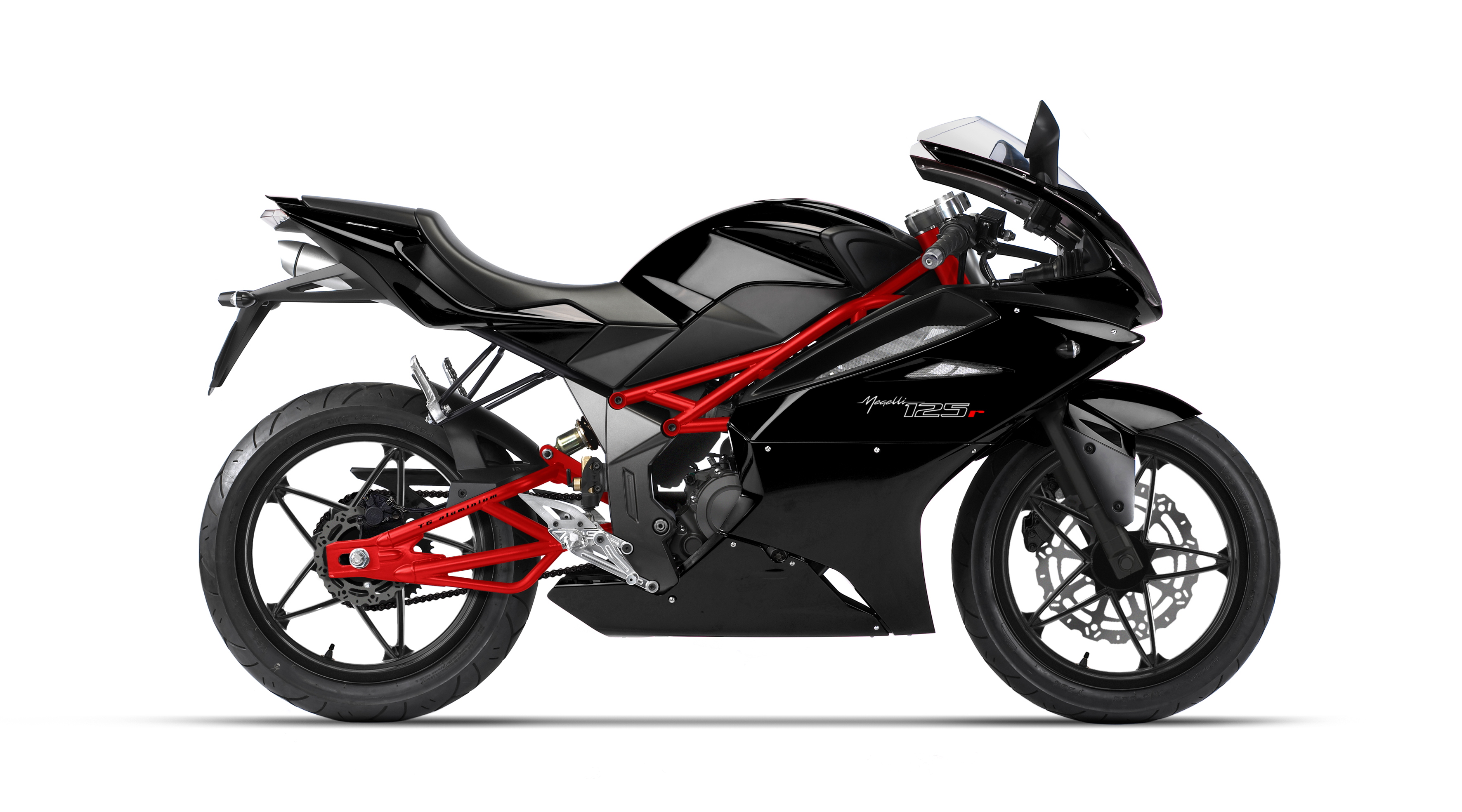 Megelli Sports motorcycle 2008